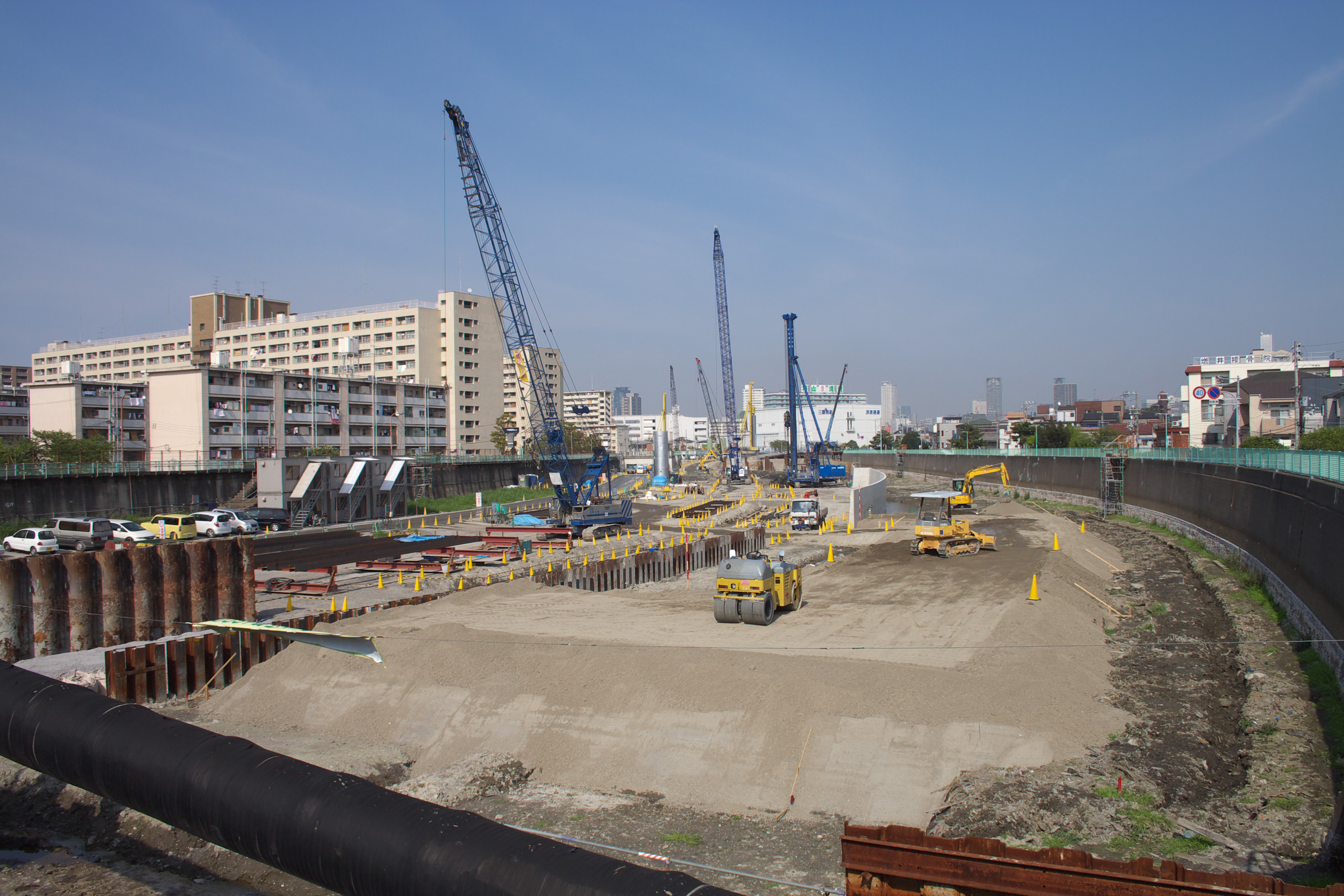 Shōrenjigawa river (Osaka City, Japan)